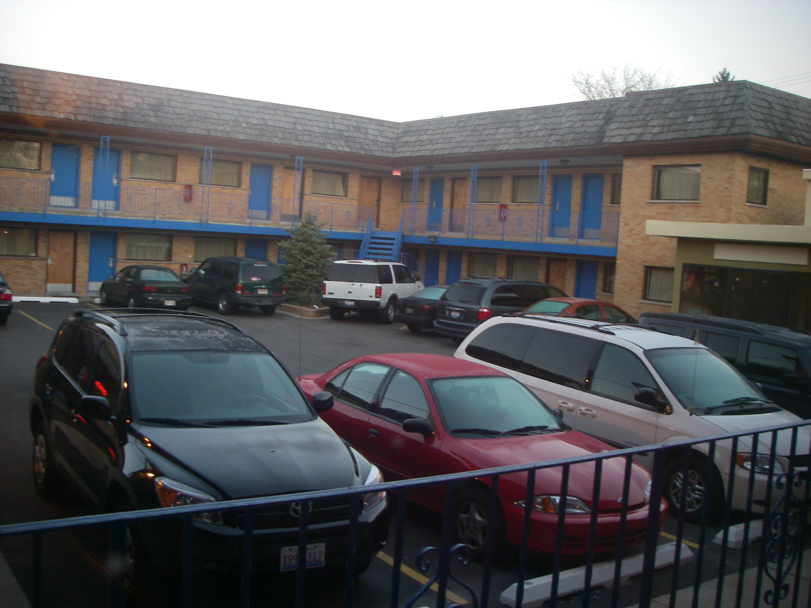 A typical motel (Rodeway Inn, Chicago)